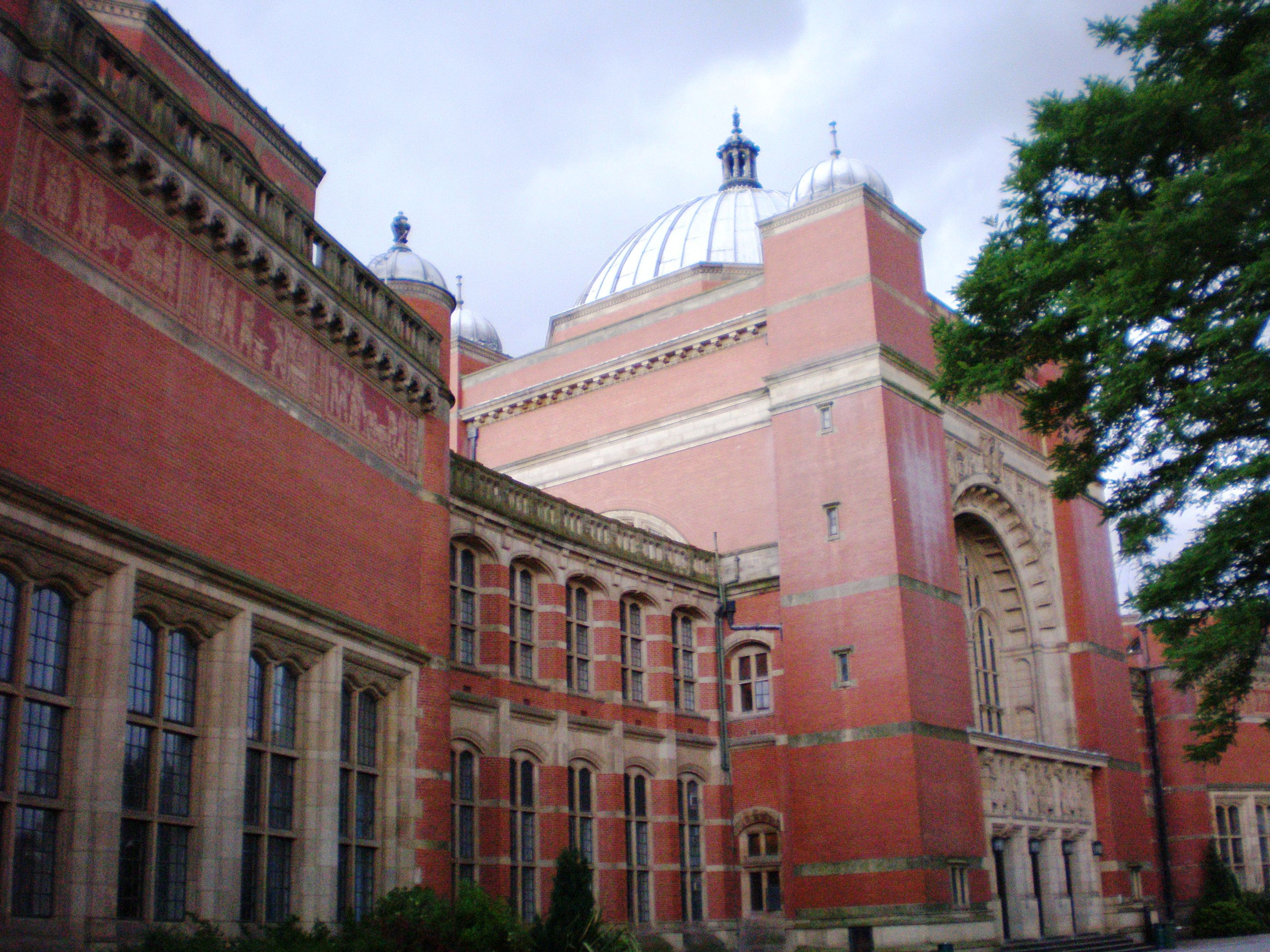 Aston Webb, Birmingham University